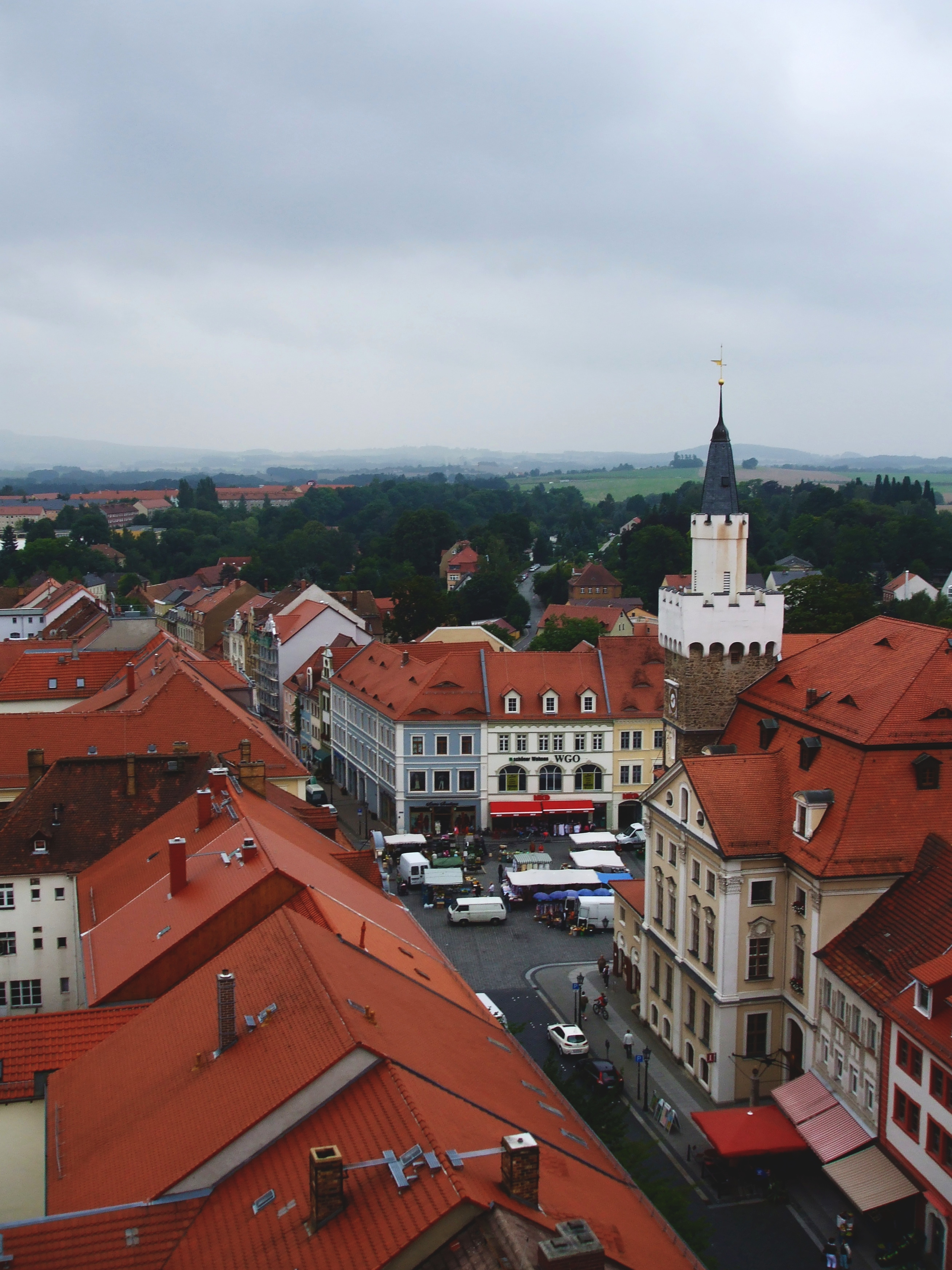 view from Löbau's kirche